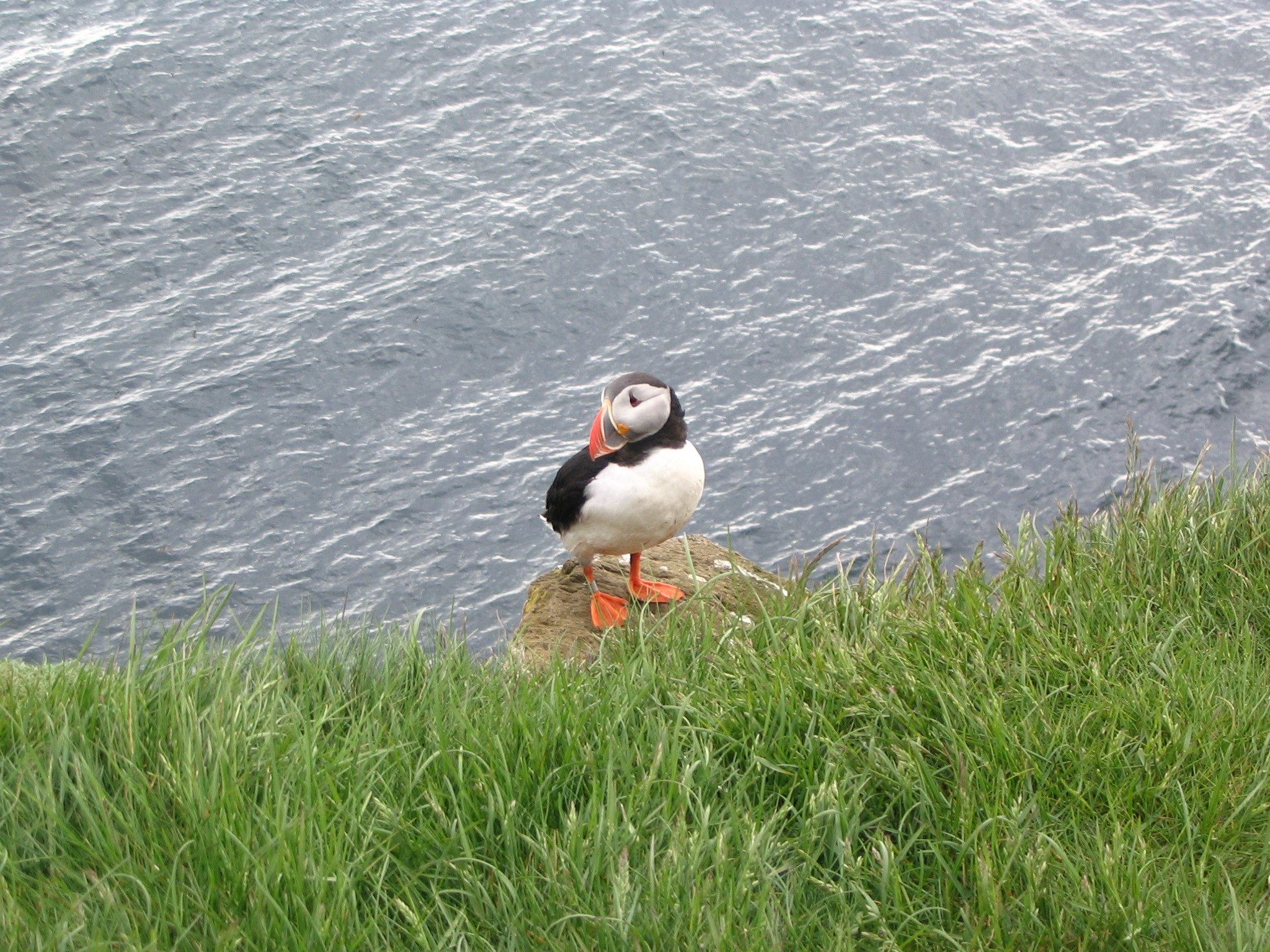 Atlantic Puffin at Látrabjarg, Iceland